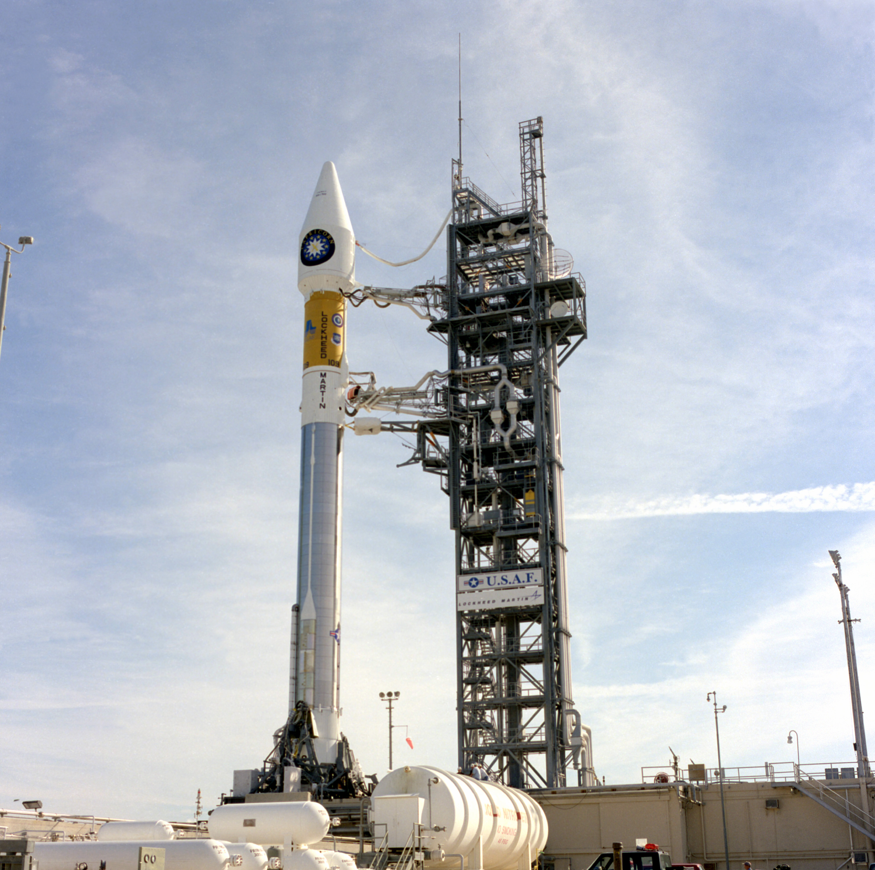 A National Reconnaissance Office satellite awaits its trip into orbit atop a Lockheed Martin Atlas IIA launch vehicle (AC-109) at launch complex 36A.